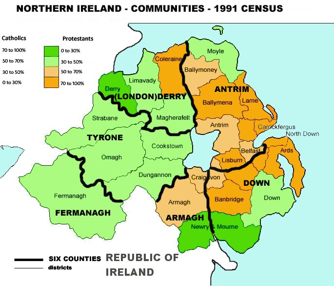 northern ireland - religions and communities - 1991 census.